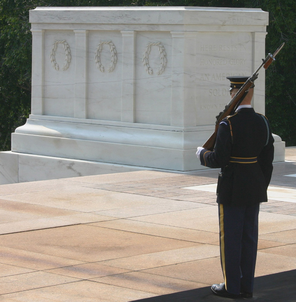 Tomb of the Unknown soldiers at Arlington National Cemetery